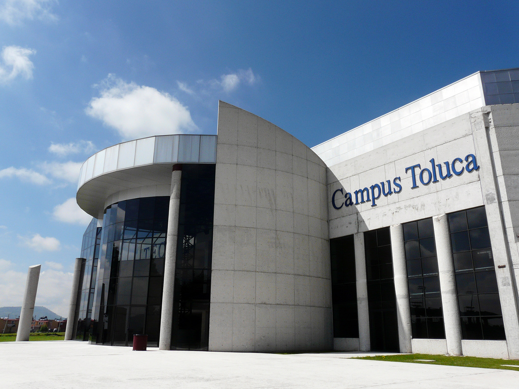 The gym of the Monterey Institute of Technology and Higher Education, Toluca Campus at Toluca, Mexico.